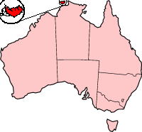 Australia_Melville_Island